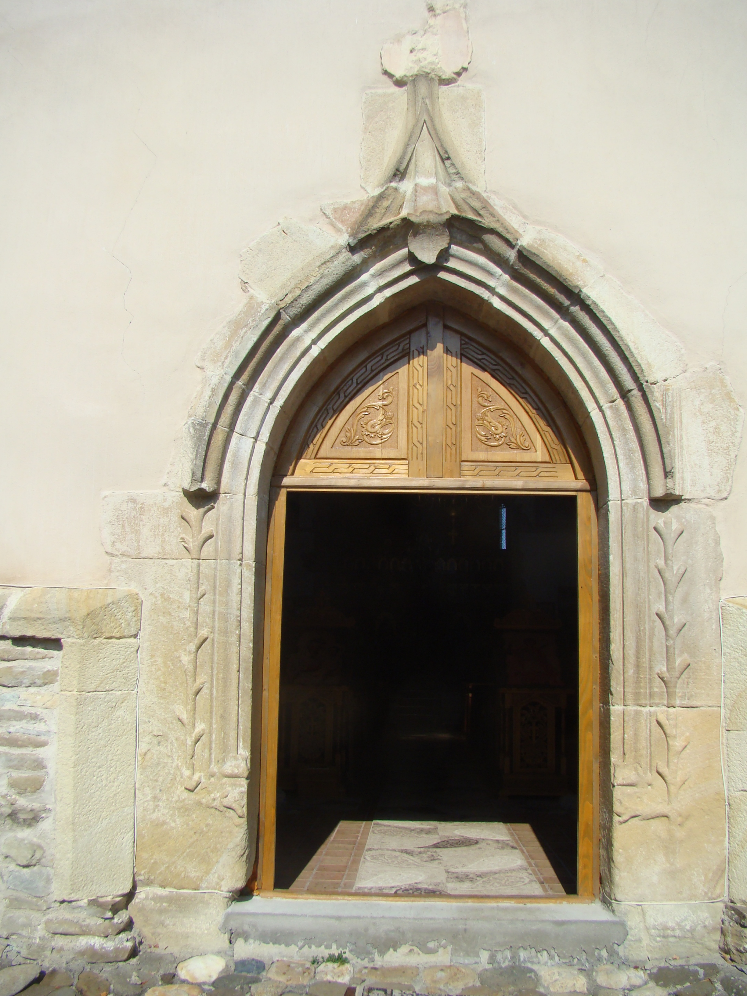 Lutheran church in Tărpiu, Bistrița-Năsăud county, Romania